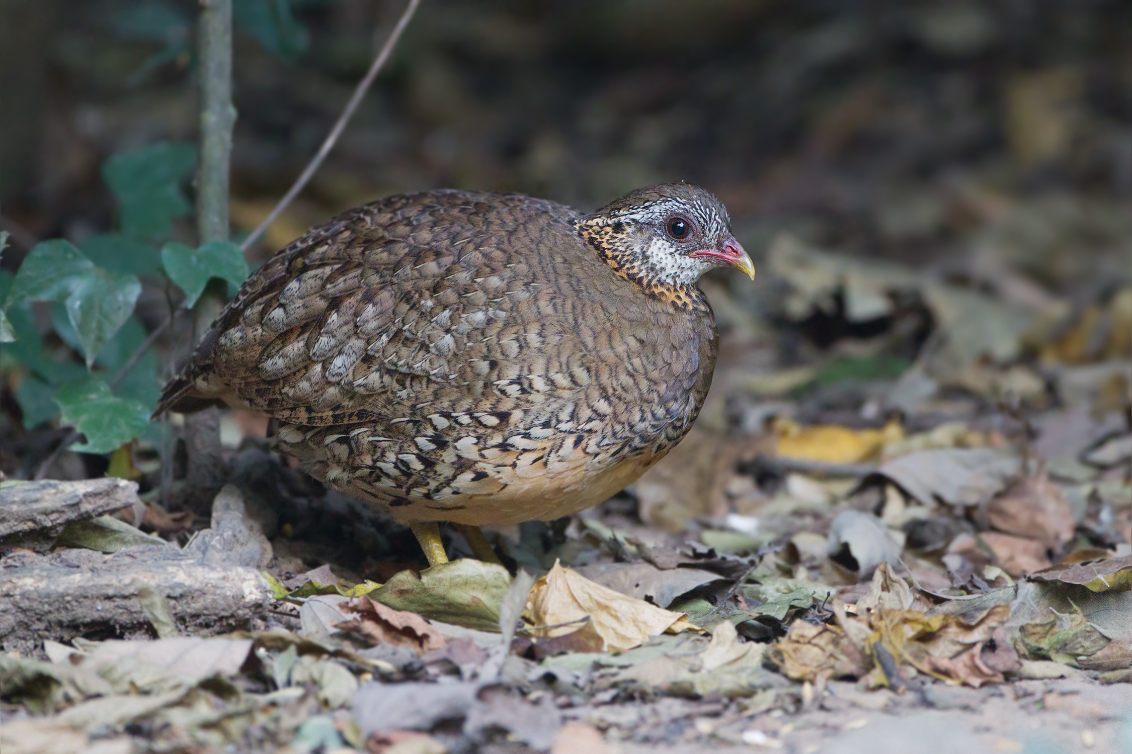 Scaly-breasted Partridge (Arborophila chloropus), Kaeng Krachan, Petchaburi, Thailand